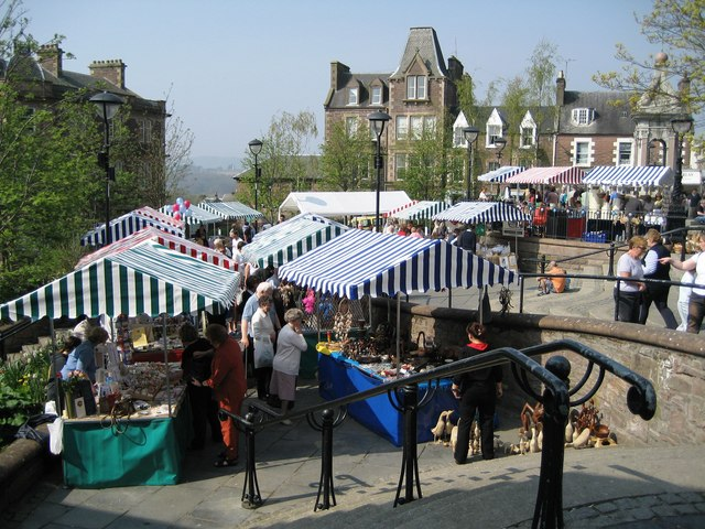 Saturday Market, Crieff, near to Crieff, Perth And Kinross, Great Britain. The market is held in James Square about once a month during the summer